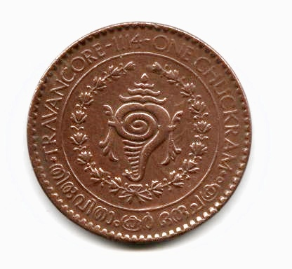 One Chuckram of Travancore